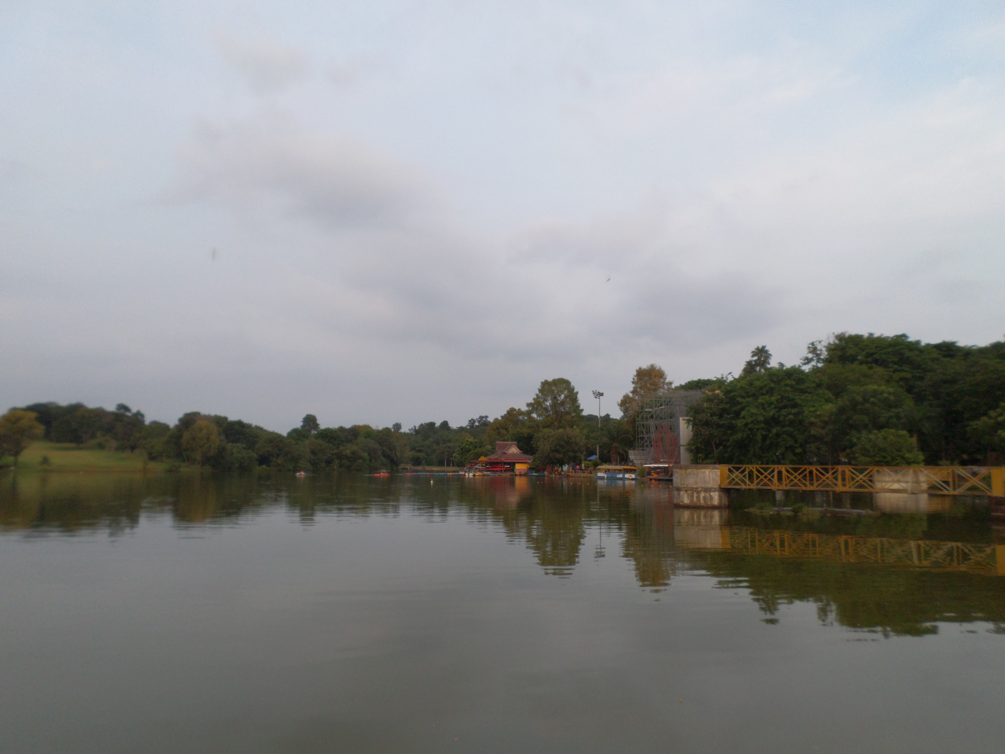 Ayer Keroh Lake, Ayer Keroh, Malacca, MalaysiaBahasa Melayu: Tasik Ayer Keroh, Ayer Keroh, Melaka, Malaysia